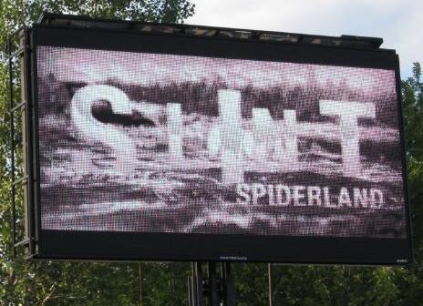 An advertisement for Slint's performance of Spiderland at the 2007 Pitchfork Music Festival. Cropped from original.